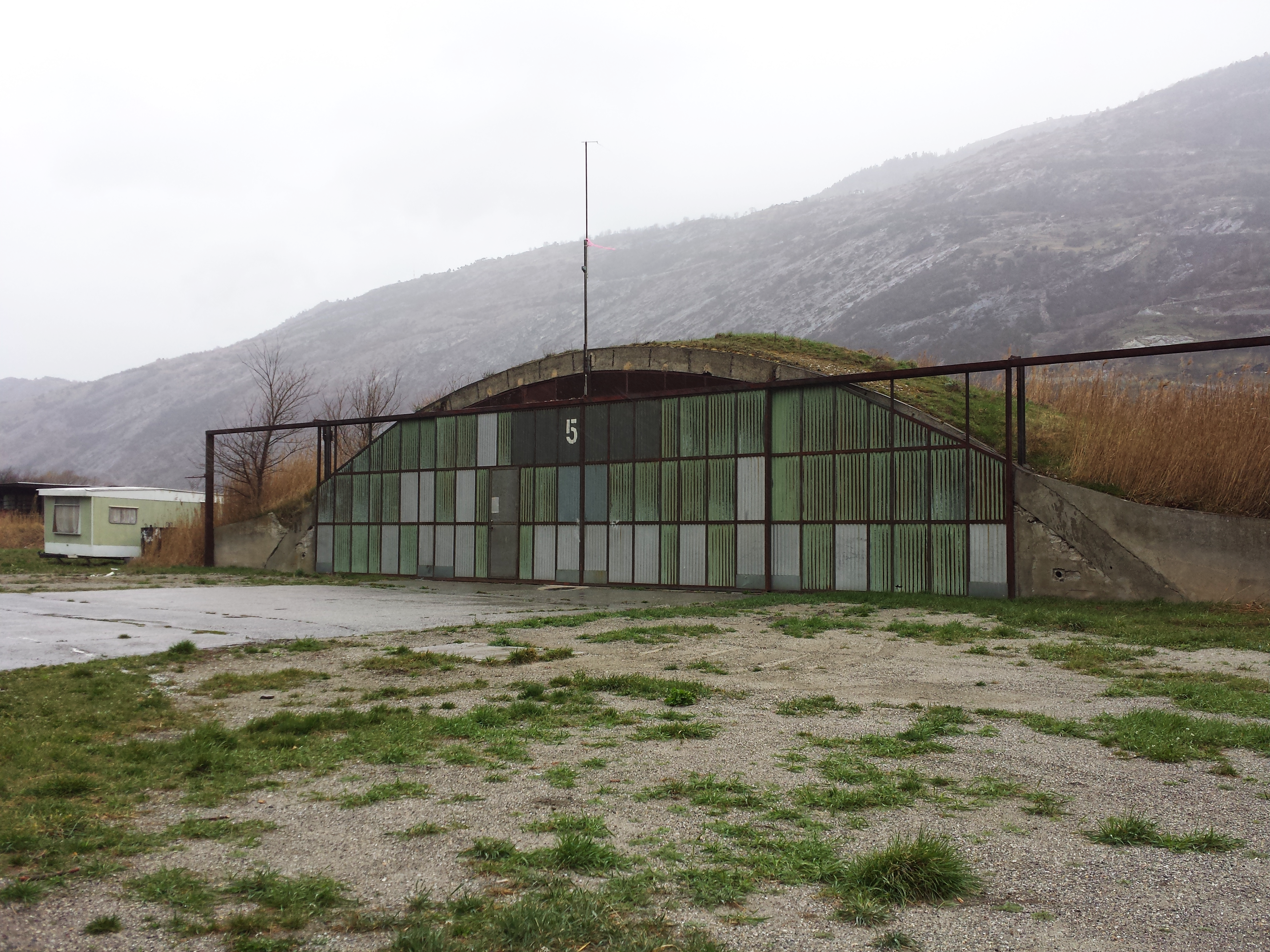 Photo of bunker used in the filming of Station Horizon